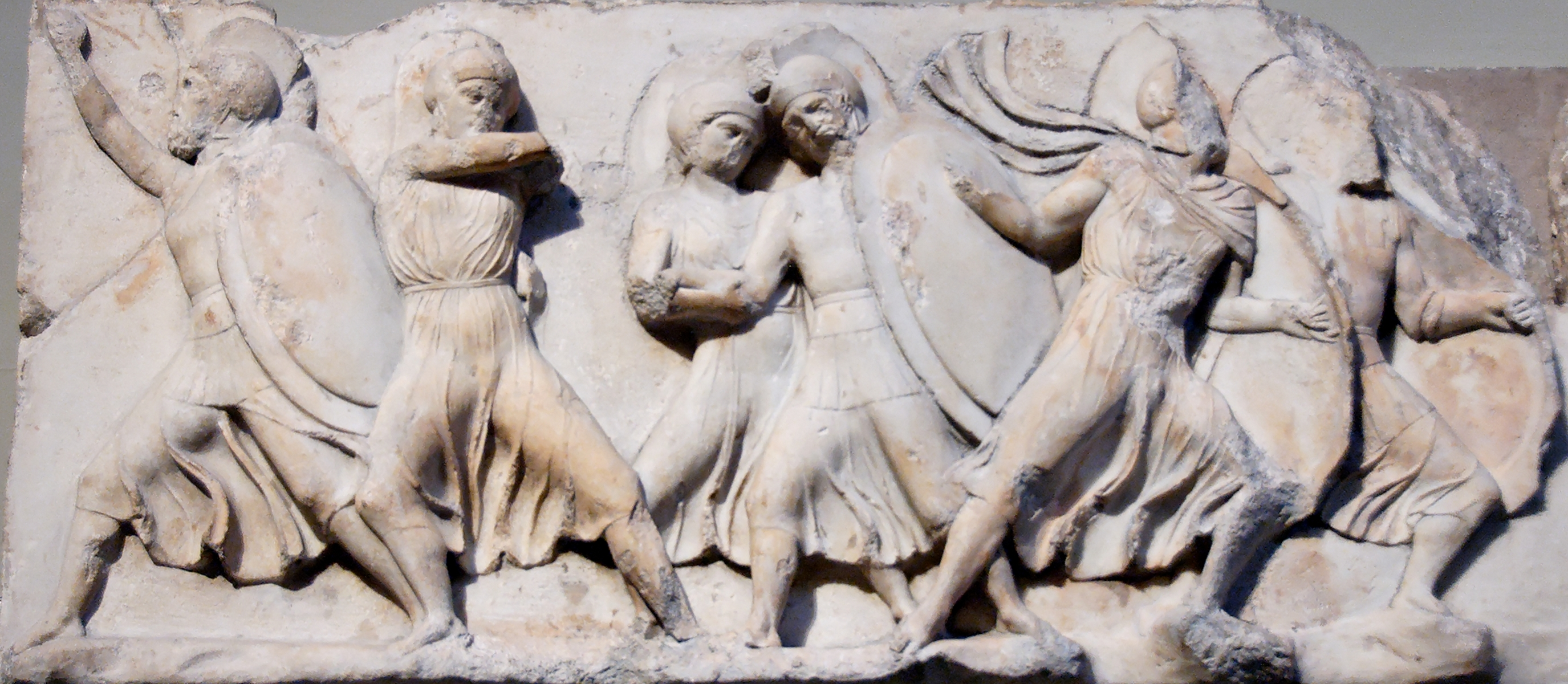 On the left, an archer aims an arrow, while a wounded soldier is helped by his companion. Fragment of the lesser podium frieze from the Nereid Monument at Xanthos in Lycia, ca. 390–380 BC.